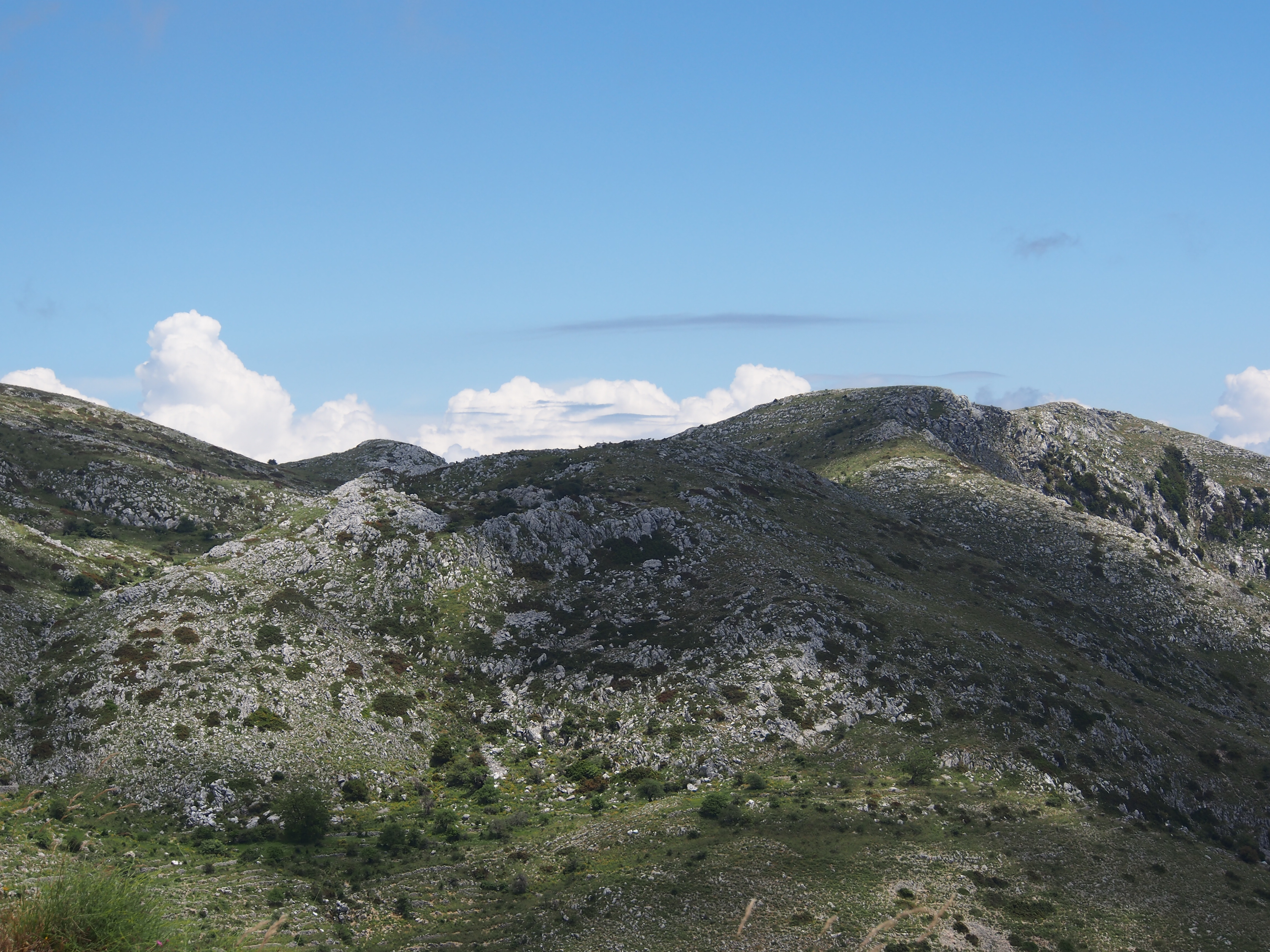 Photographed on Lefkas, Greece.